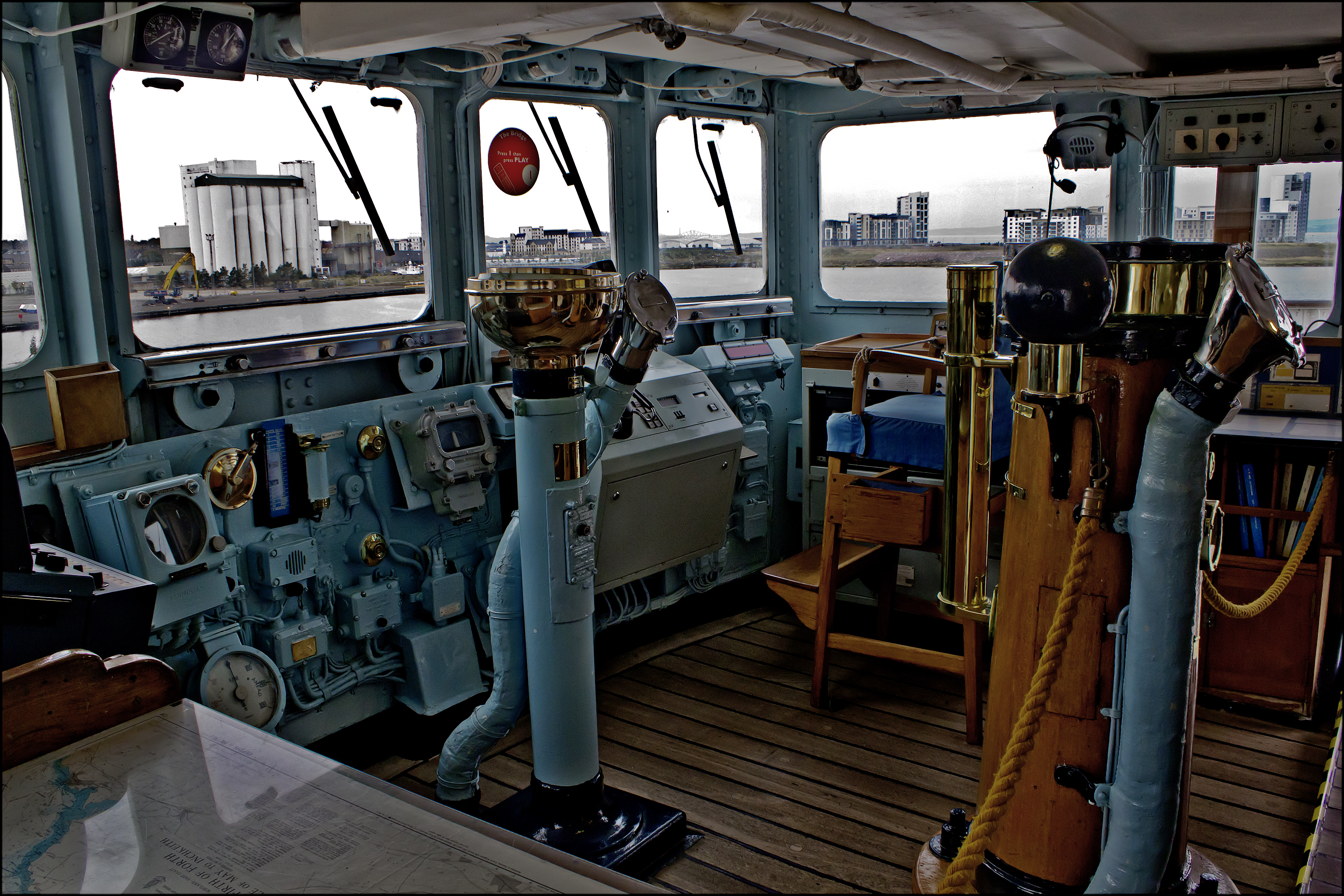 Bridge of Royal Yacht Britannia